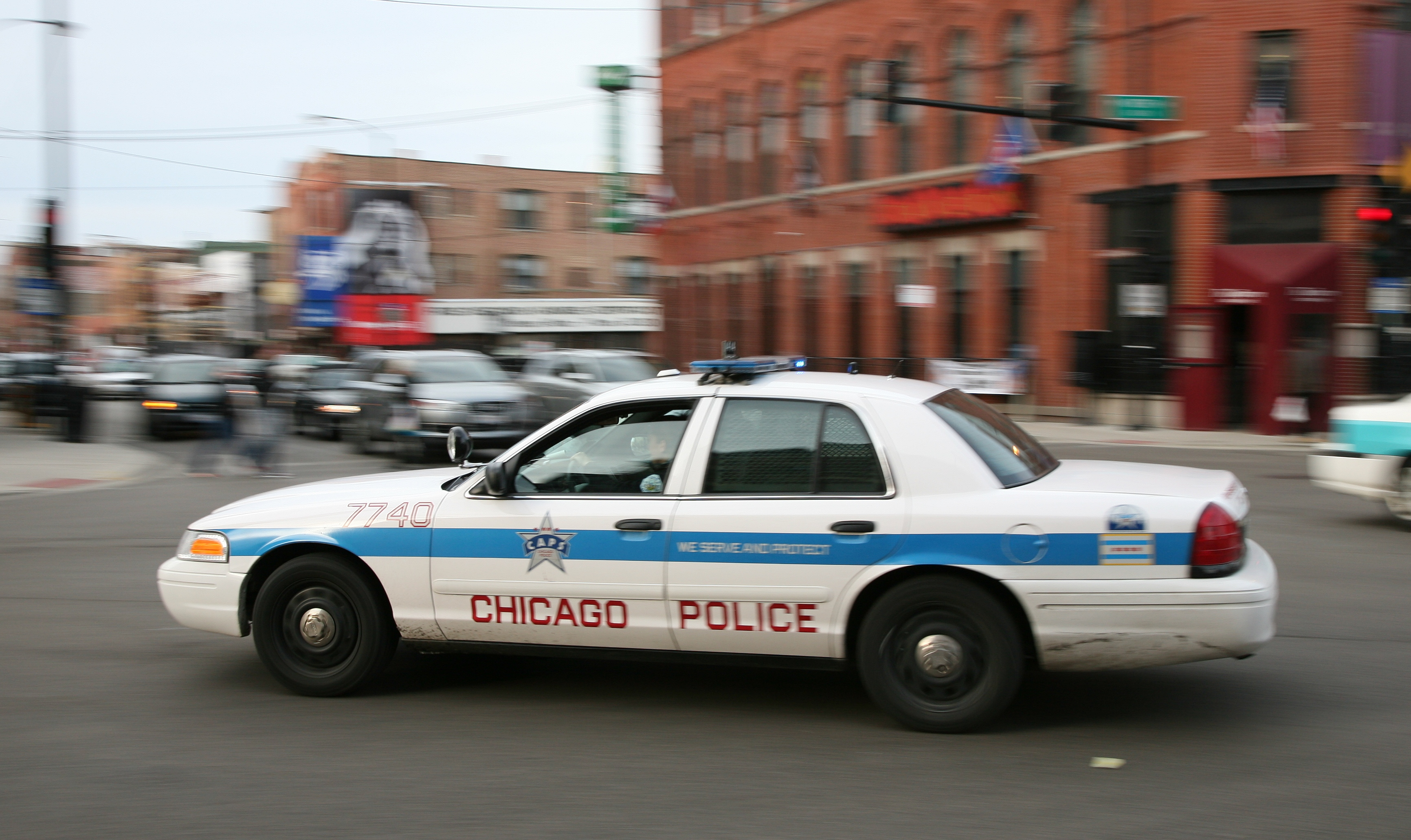 Chicago police car